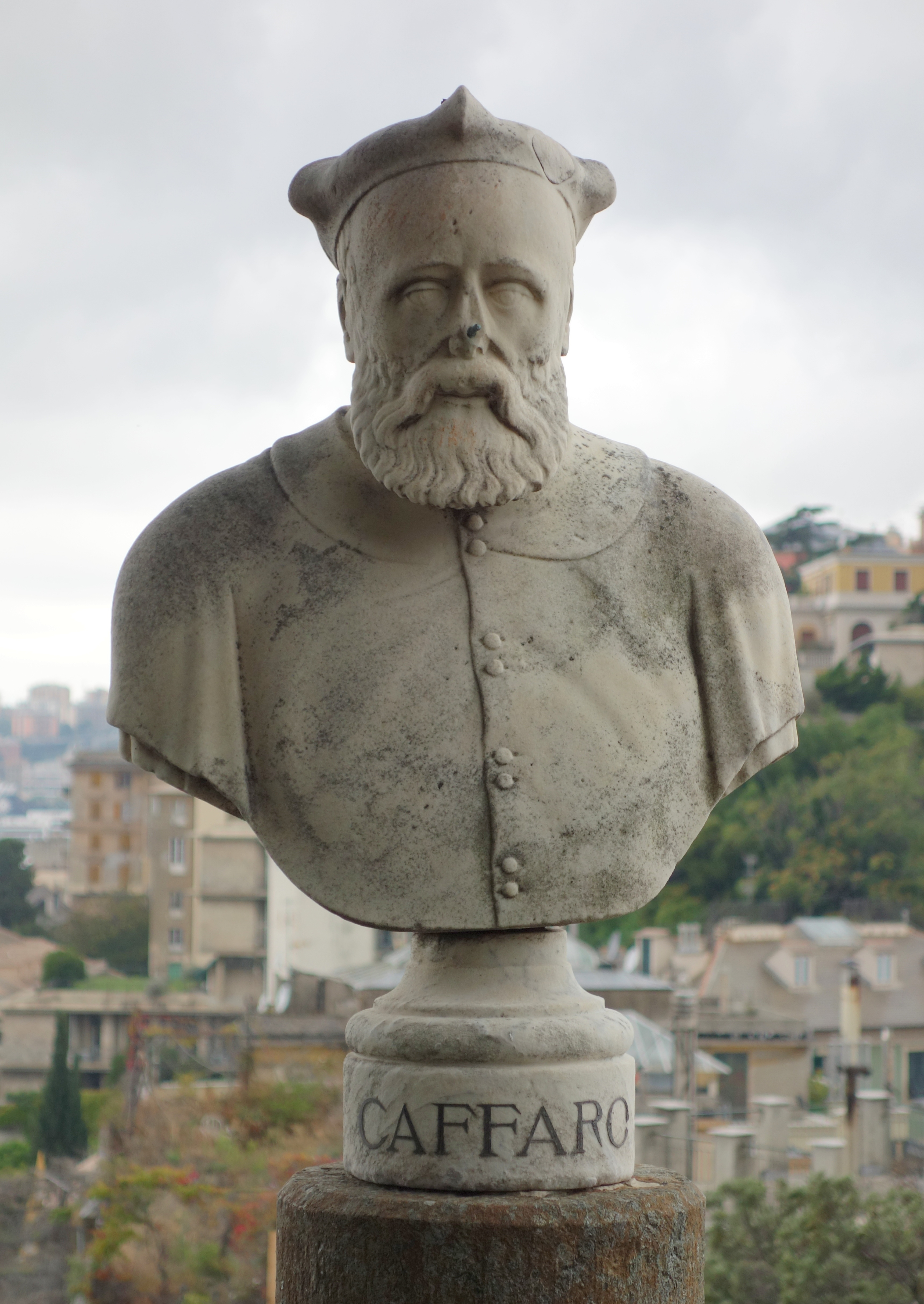 Memorial bust in the Villetta Di Negro (Genoa, Italy). This artwork is old enough so that it is in the public domain.